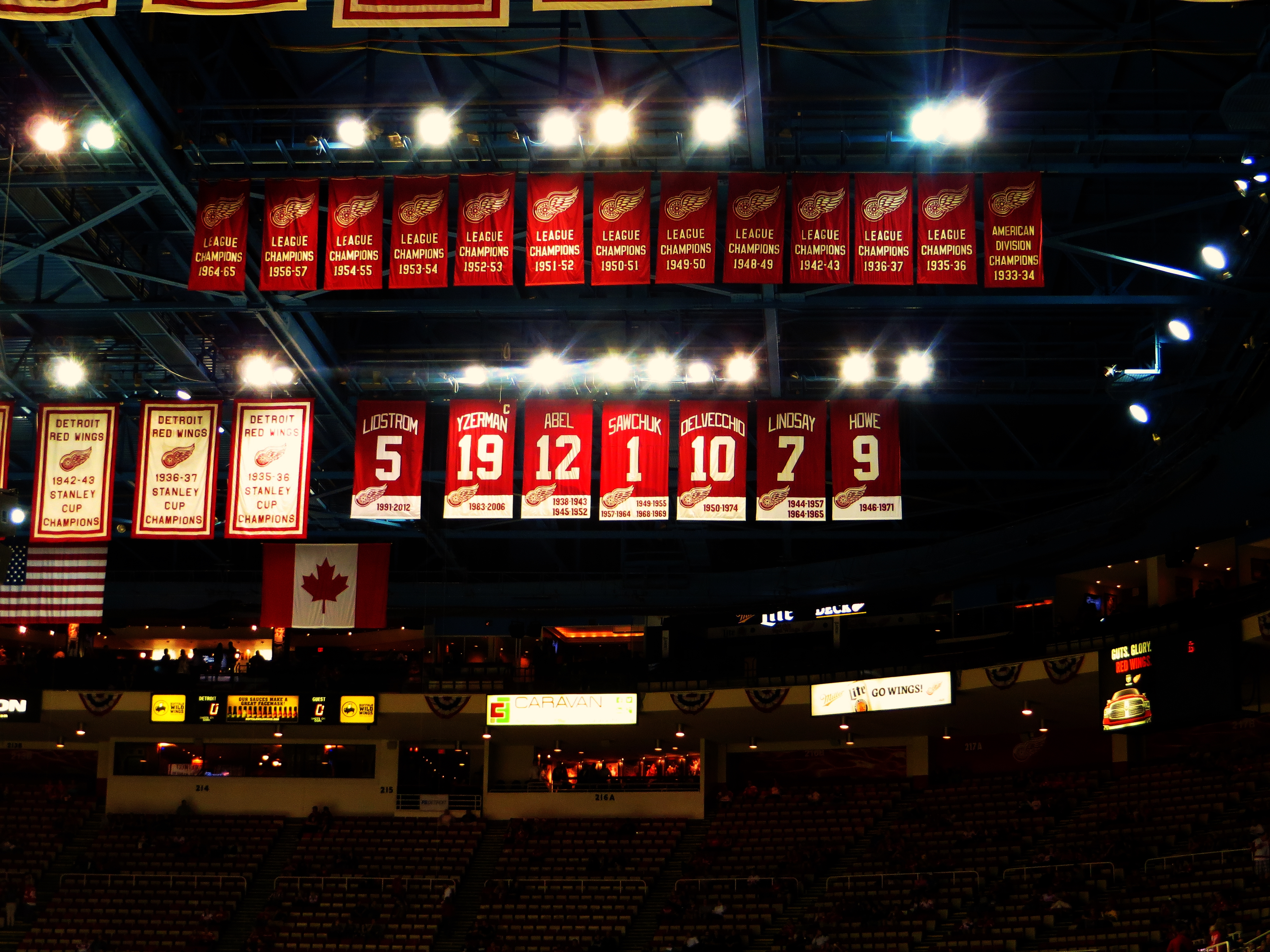 Banners hanging at Joe Louis Arena